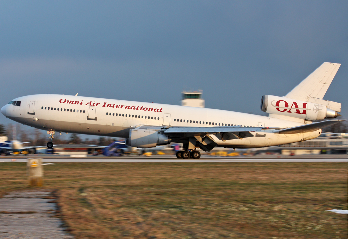 Landing on Rwy 05R late afternoon in Zagreb airport.